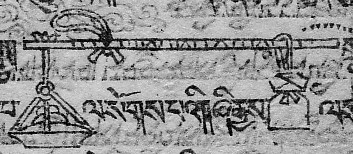 Tibetan zodiacal sign (khyim) Libra. Called in Tibetan "srang" =scale. From an old blockprint of the Vaidurya dkar-po (1685)